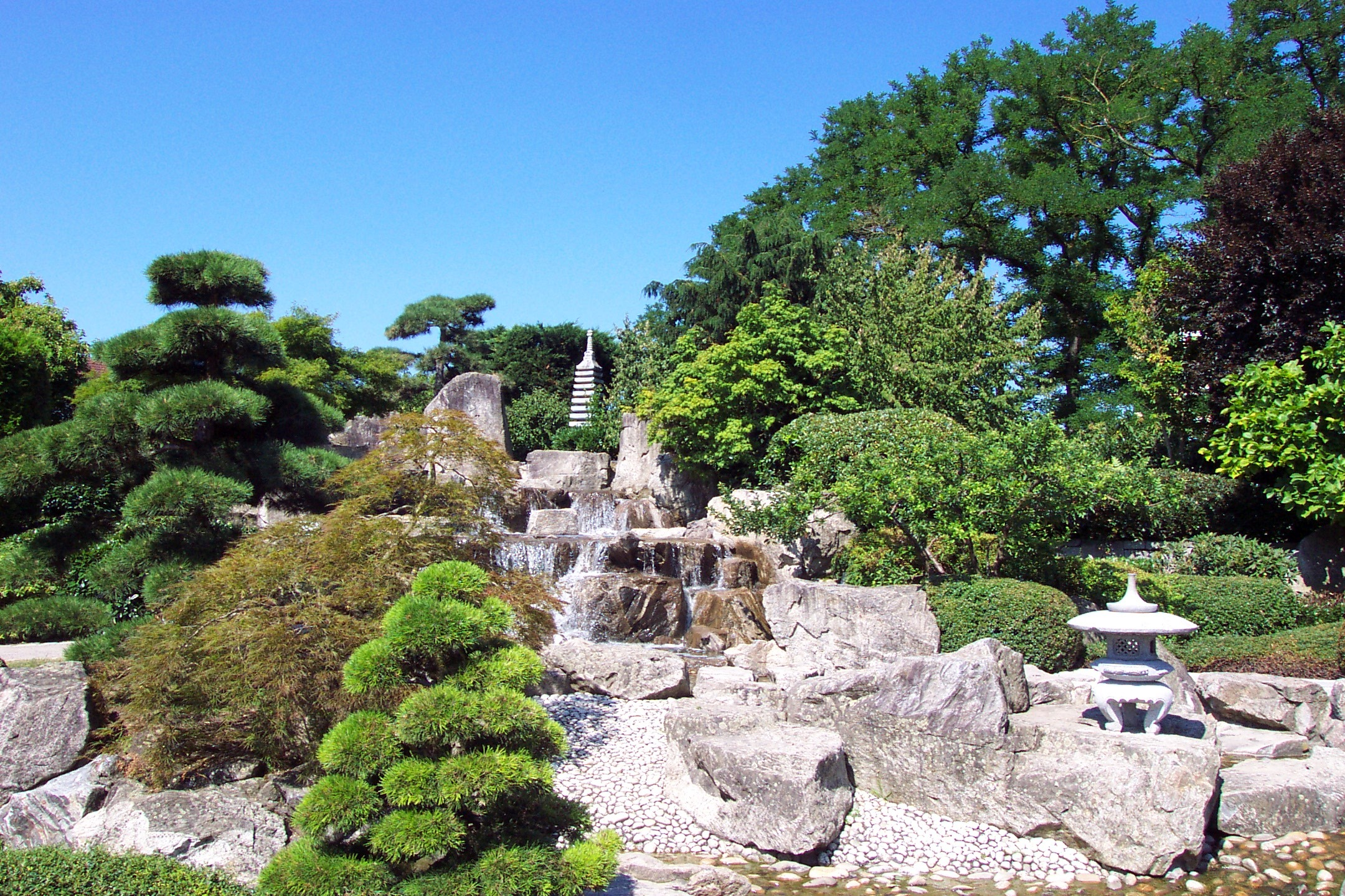 Japanese Garden in Freiburg